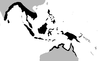 Taken or Created by User:Froggydarb}